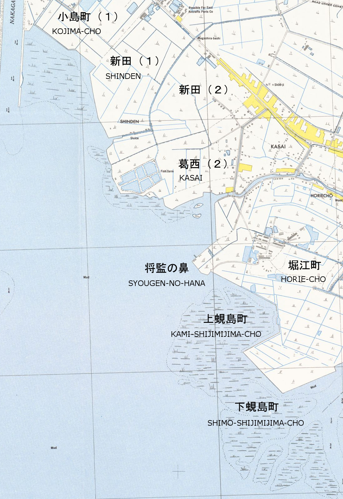 This map shows the coast of Kasai in 1945.